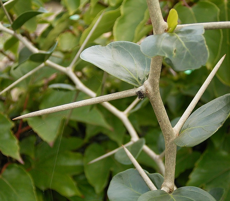 Dovyalis caffra